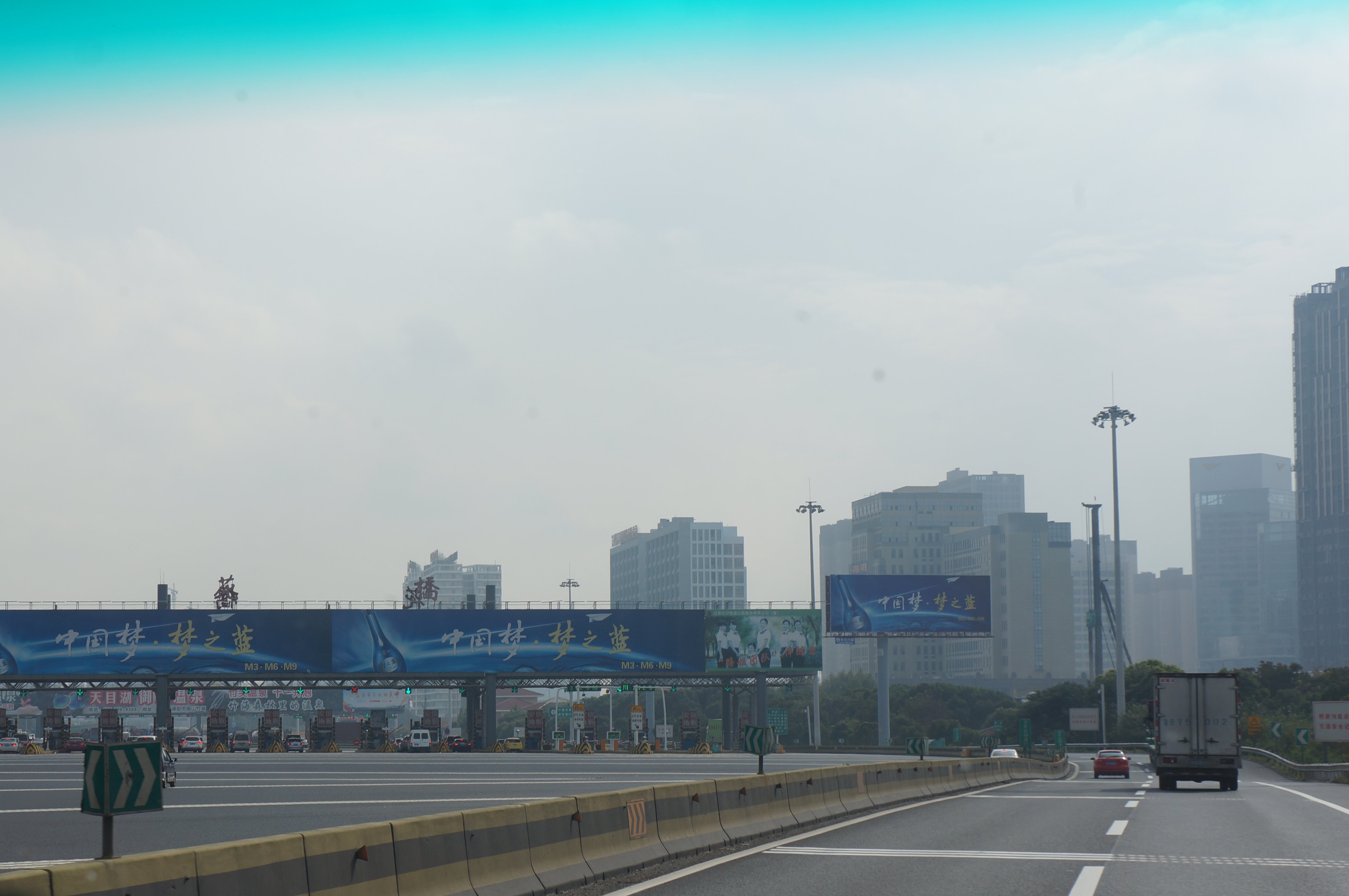 201611 Huaqiao Toll Gate of G2 Highway